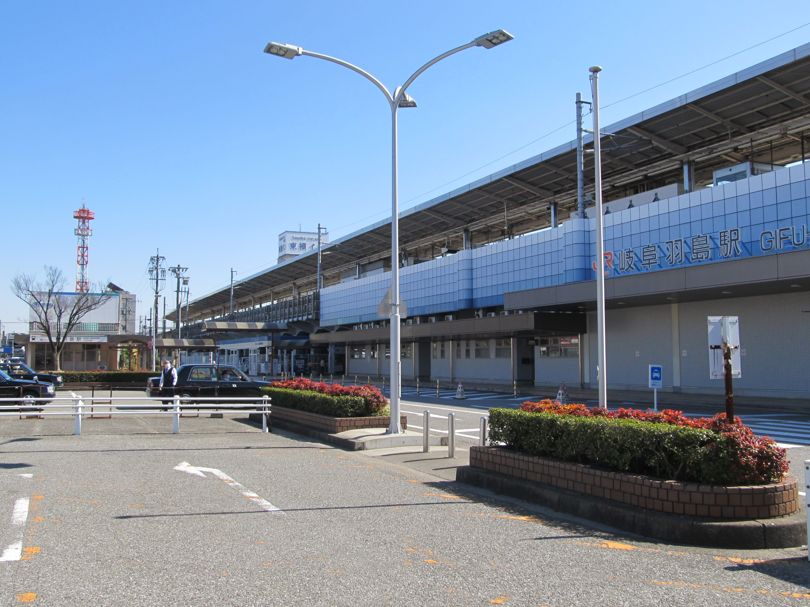 (Right) Central Japan Railway Tōkaidō Shinkansen Gifu Hashima Station. (Back) Nagoya Railroad Hashima Line Shin Hashima Station.